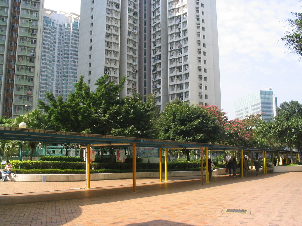 A small garden located between Fu Tong Estate & Yu Tung Court